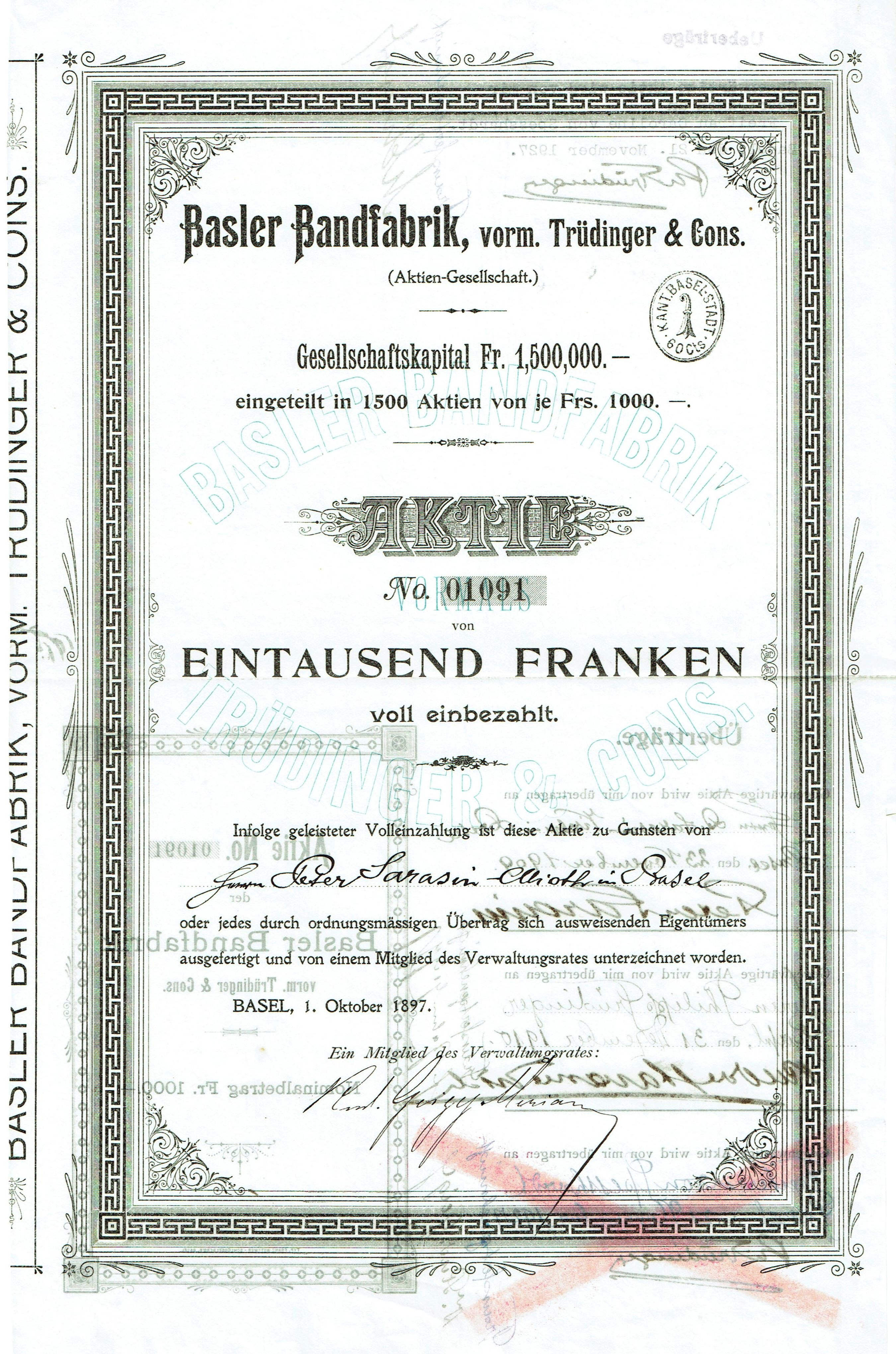 Share of the Basler Bandfabrik, vorm. Trüdinger & Cons., issued 1. October 1897